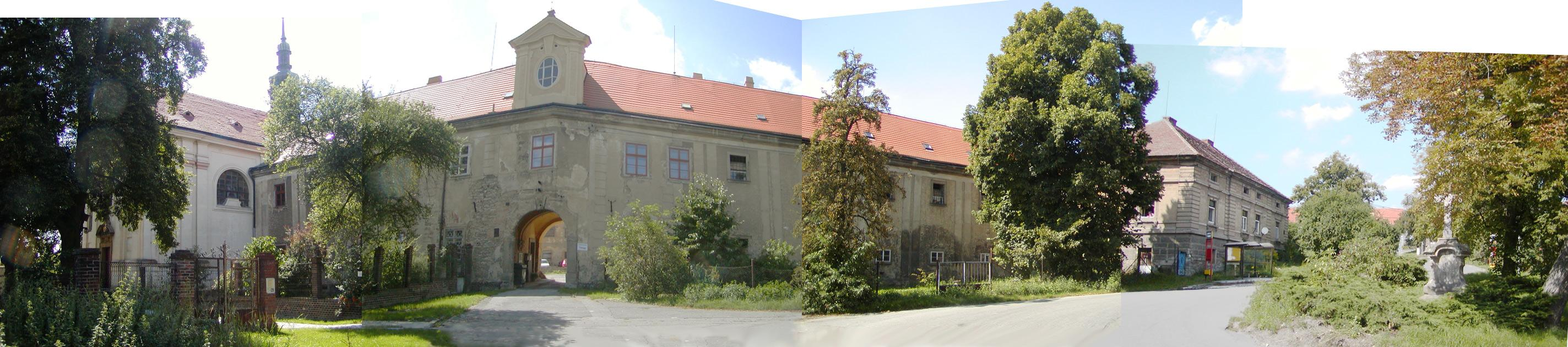 Tuchoměřice, Prague-West District, Czech Republic